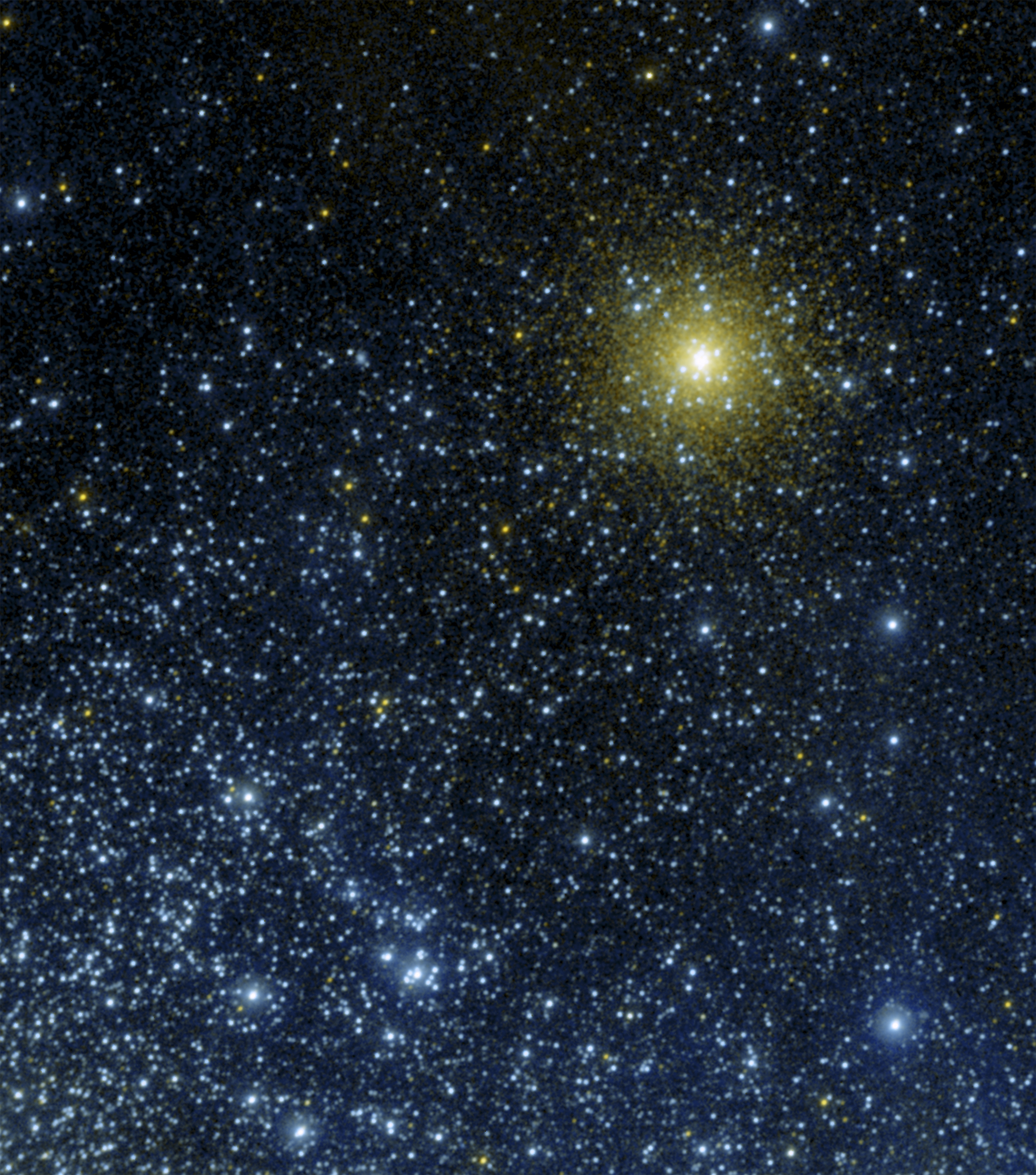 This image is a false color composite, where light detected by GALEX's far-ultraviolet detector is colored blue, and light from GALEX's near-ultraviolet detector is red.